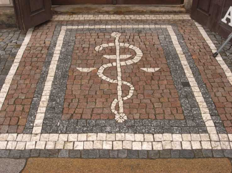 Litomyšl, modern cobblestone design in front of a pharmacy (marble Bohdaneč, granodiorite Hlinsko, granite Skuteč, granite Kamenná)